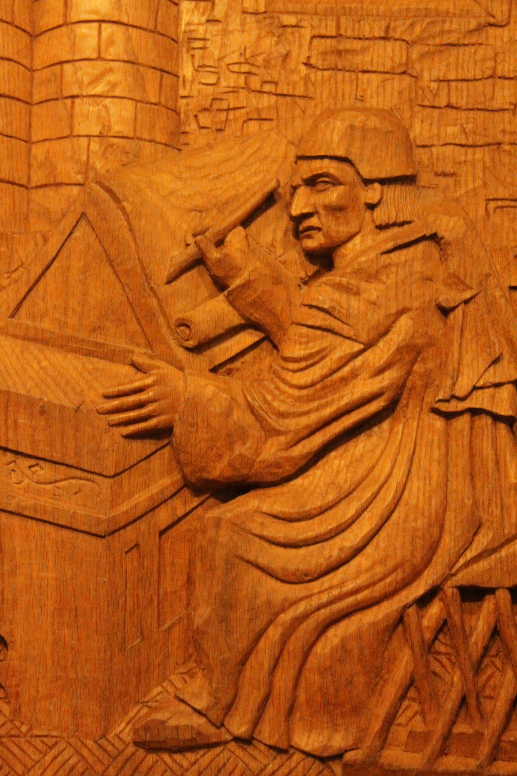 Memorial to John Barbour, St Machar's Cathedral